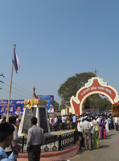 Namantar martyrs monolith - this monolith is erected in memory of the valour and the sacrifice of Dalit martyrs who sacrificed their lives during Namantar Andolan.